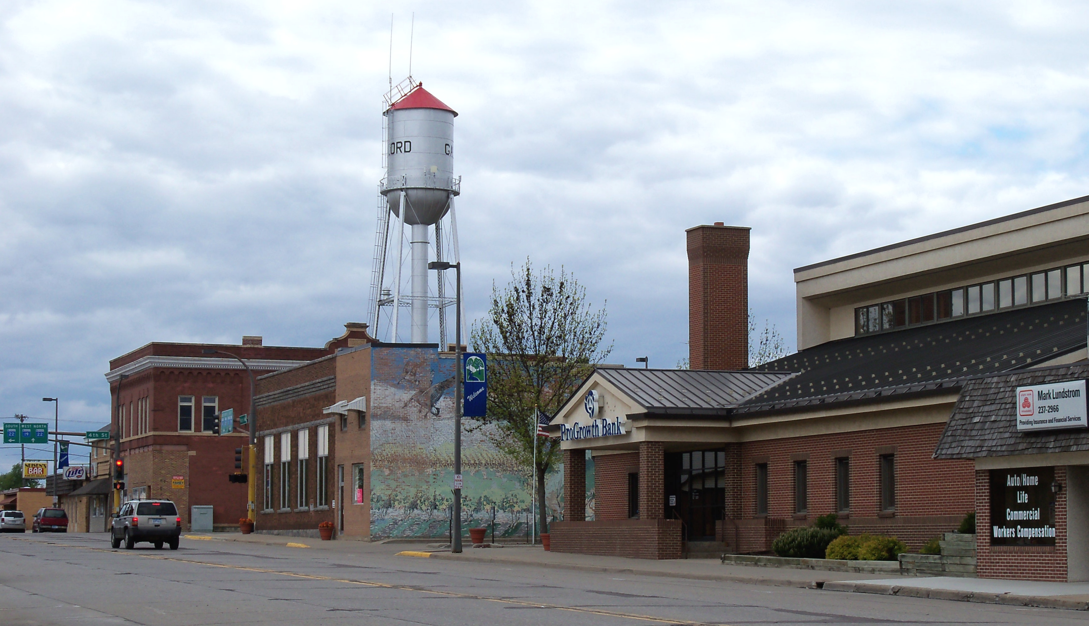 Downtown Gaylord, Minnesota, USA.